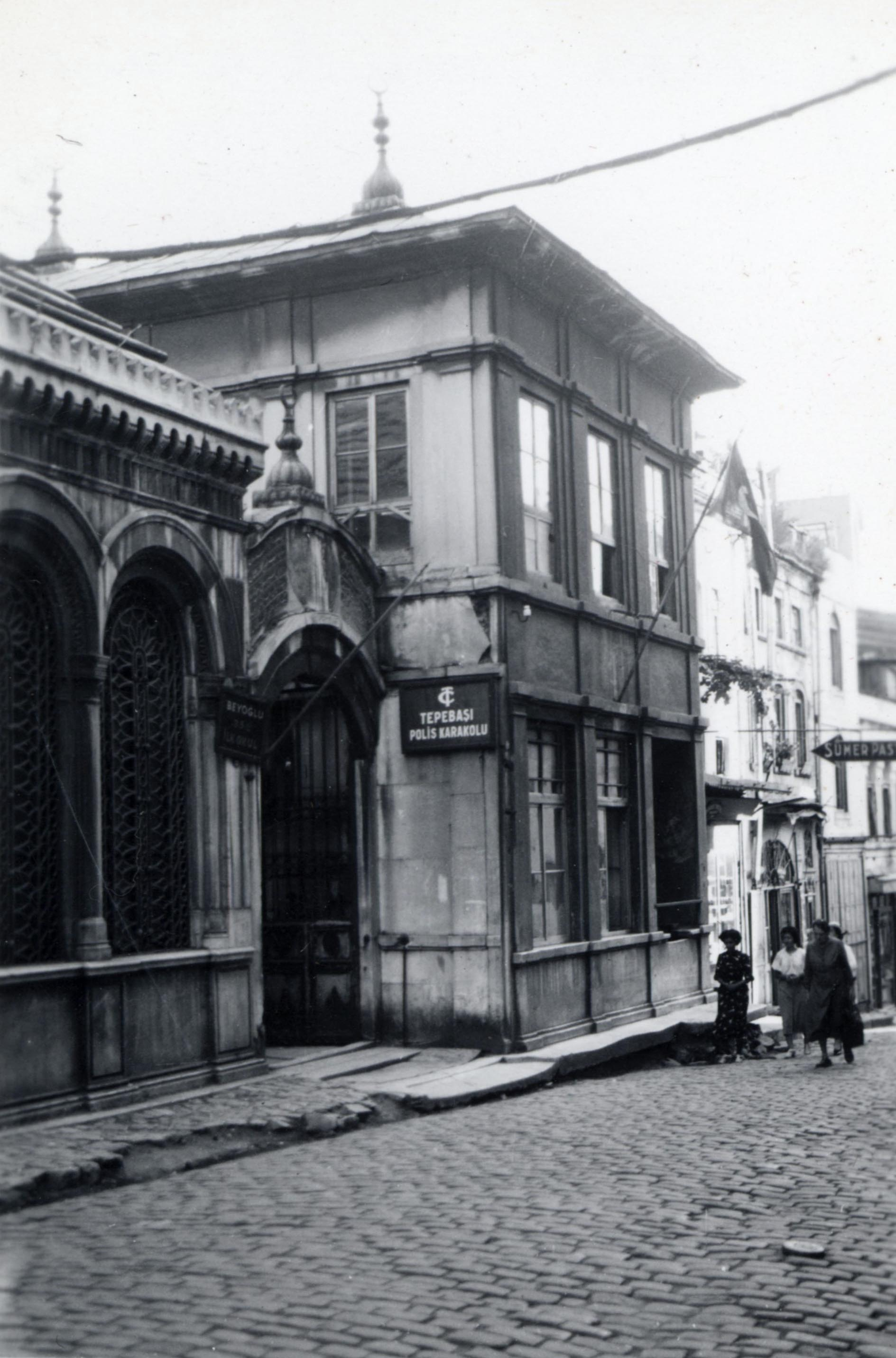 Tepebaşı Police Station, İstanbul SALT Research, Ali Saim Ülgen Archive Tepebaşı Polis Karakolu, İstanbul SALT Araştırma, Ali Saim Ülgen Arşivi